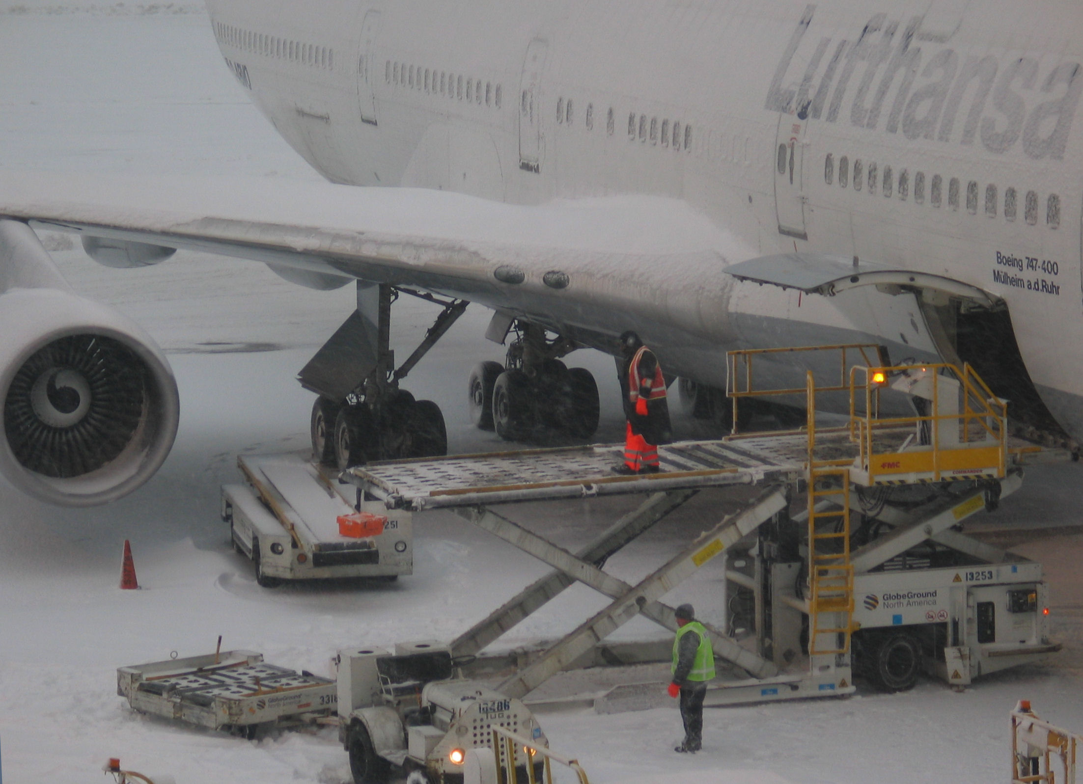 Loading luggage at Boston Logan Airport, during a temporary closure due to heavy snowfall. The aircraft is a Lufthansa Boeing 747-400 (D-ABVO, "Mülheim a.d. Ruhr")